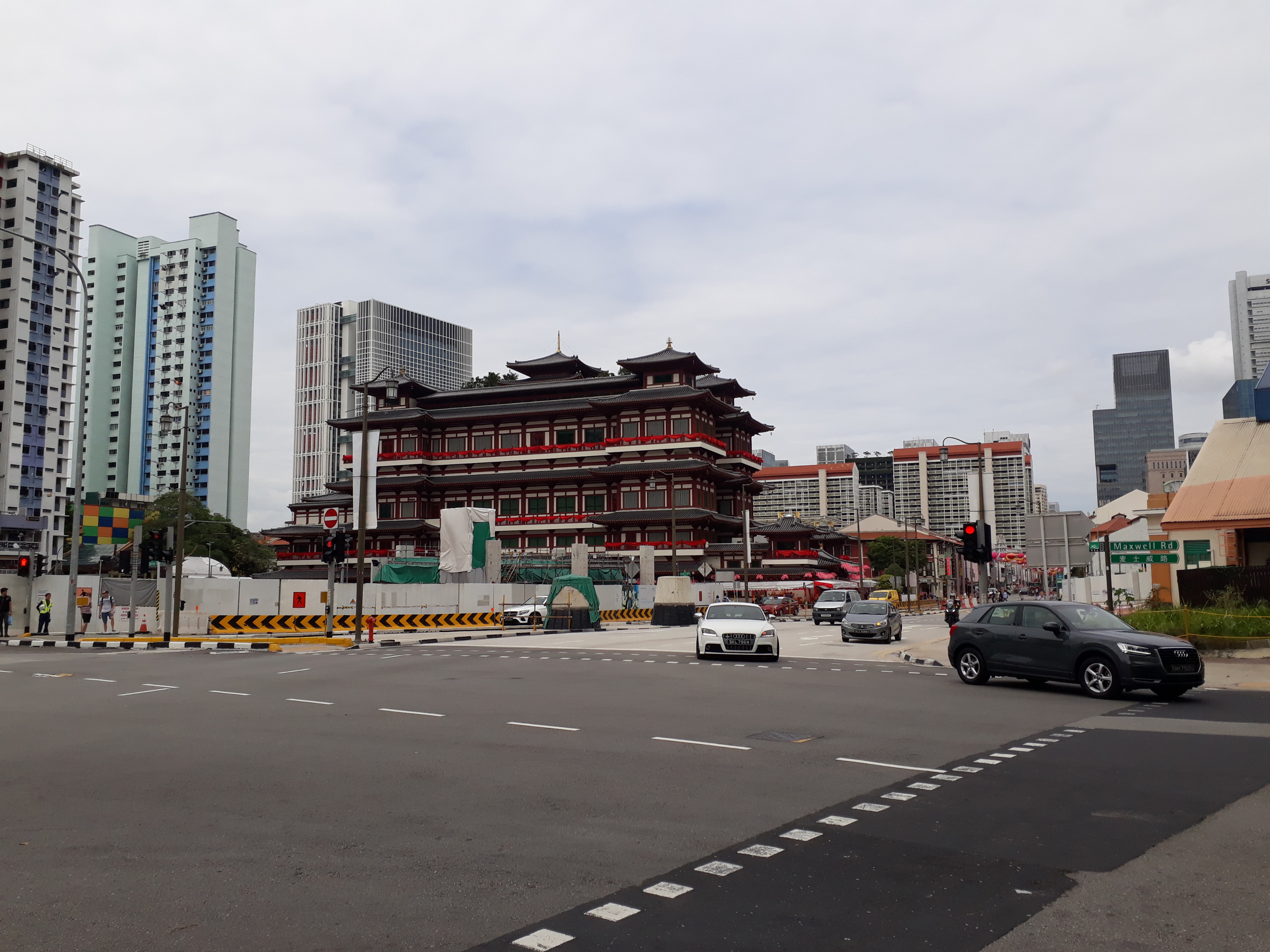 Construction site of the station at the junction with Maxwell Road and Buddhist Temple at the background